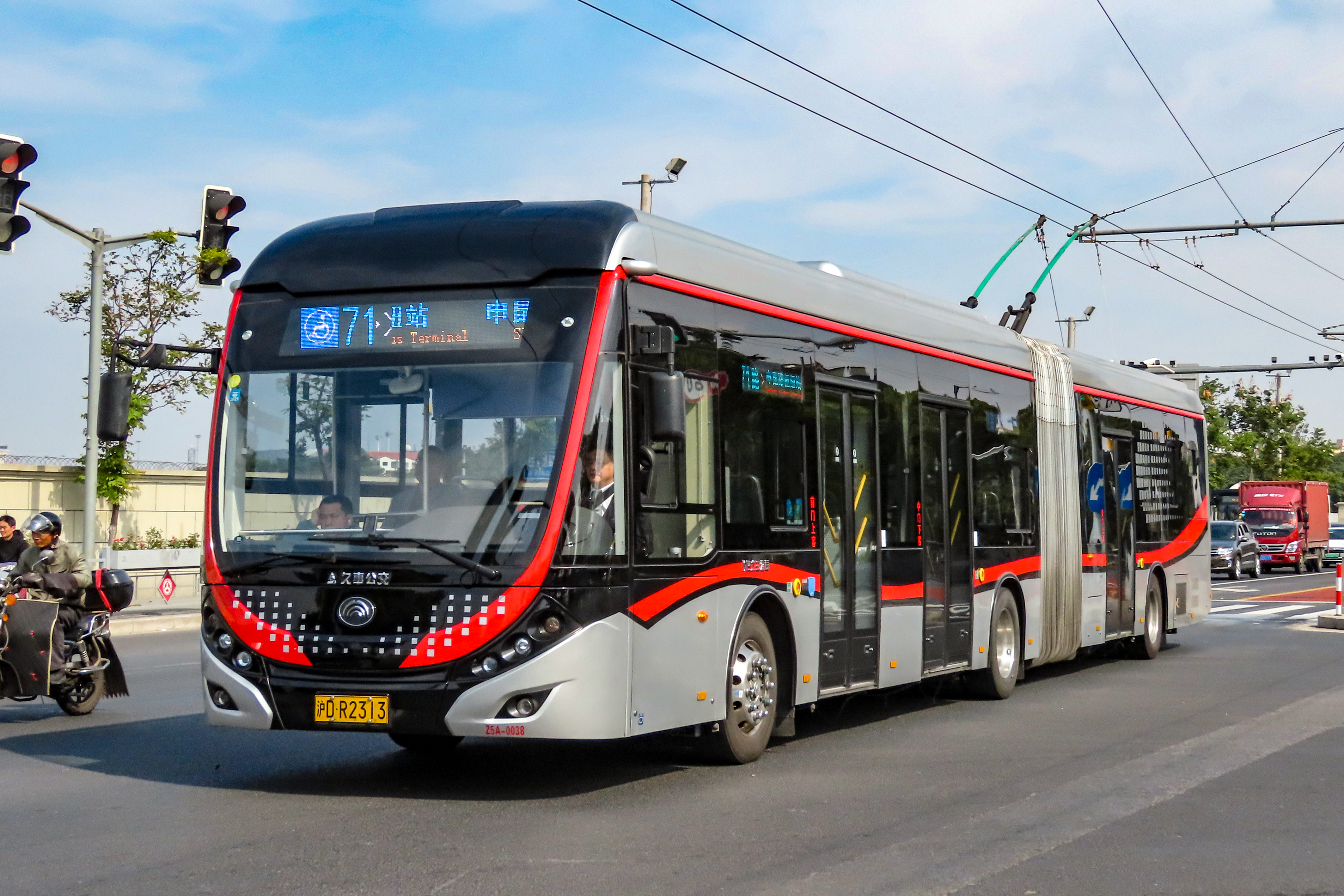 Came across this.